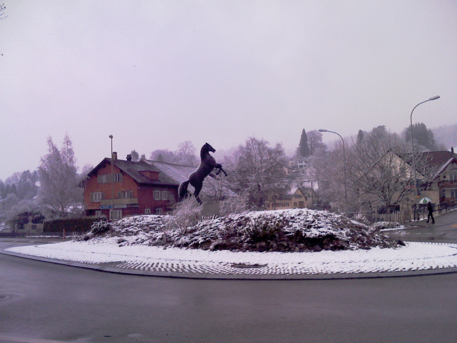 Elgg traffic circle, Canton Zurich, Switzerland - Elgg trafikcirko, Kantono Zuriko, Svislando